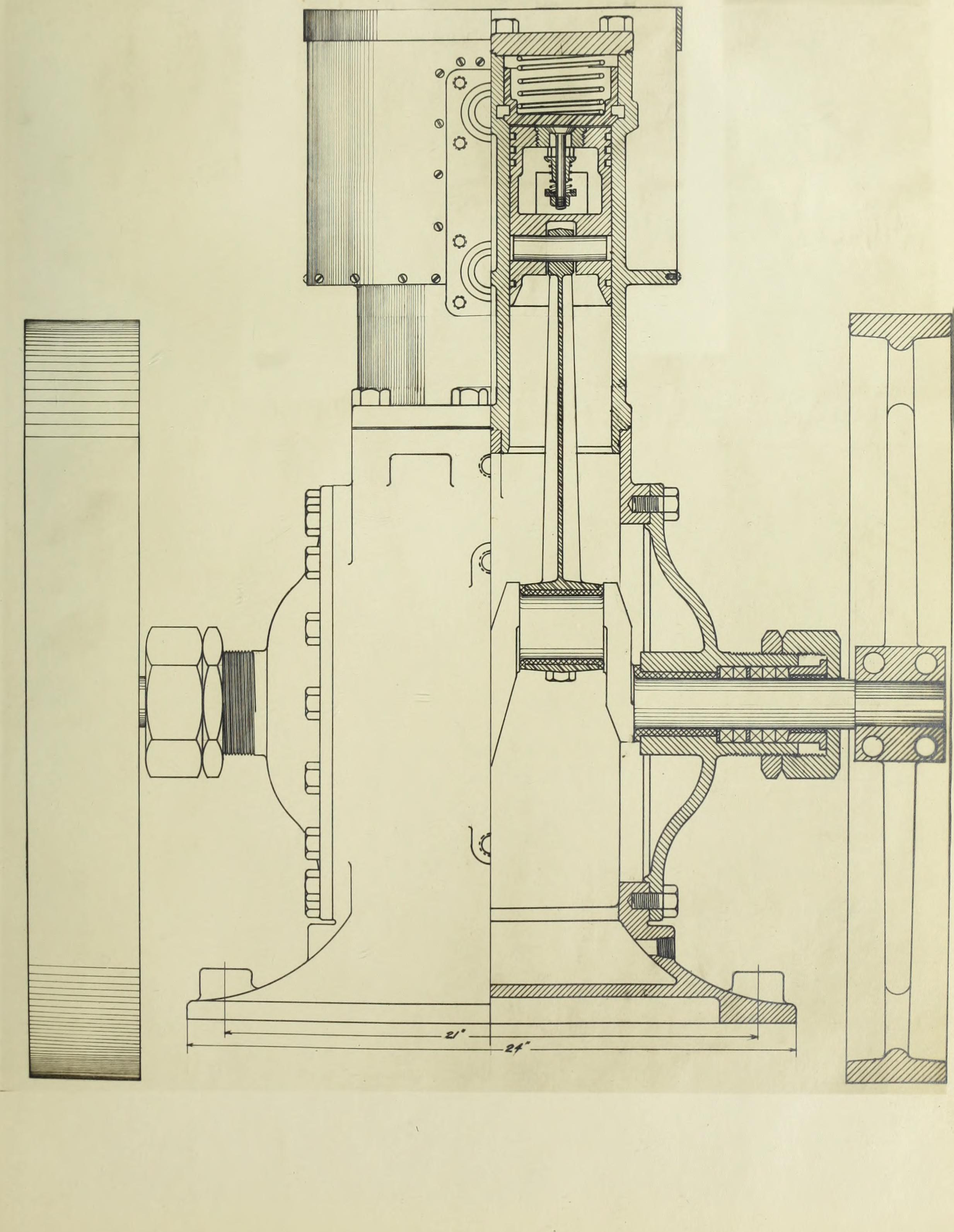 Title: A discussion of the design of small ammonia compressors Year: 1911 (1910s) Authors: Hachmeister, George John Ernst Subjects: Compressors Refrigeration and refrigerating machinery Ammonia Theses Publisher: Text Appearing Before Image: et should be open to prevent the cylinders from crackingshould the machine be running with frost back to the machine and the jacket watershut off. A machine of similar design was built some ten months ago and installed in alarge retail market and has been running ten hours daily without any repairs of anykind. It is impossible to hear the valved work ten feet away from the compressor.This machine is held by four one-half inch bolts leaded four inches in a concretefloor. The water jacket is left off of the drawings as this is generally cut and fit-ted to each cylinder in the tin-shop. It should have a one and one-quarter by one-eighth inch iron band at the top and fitted with a one-quarter inch inlet flange atthe bottom and half-inch outlet flange at the top. The babbit should not contain any metal that is effected by ammonia, and thebearings should be cast accurate. It is advisable to pickle the castings and forgings before machining to preventany scale from getting in the bearing. 19 Text Appearing After Image: '